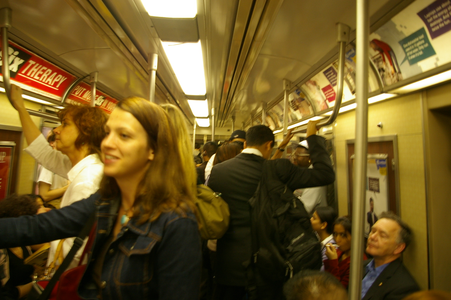 Mild Rush Hour not Starring Chris Tucker